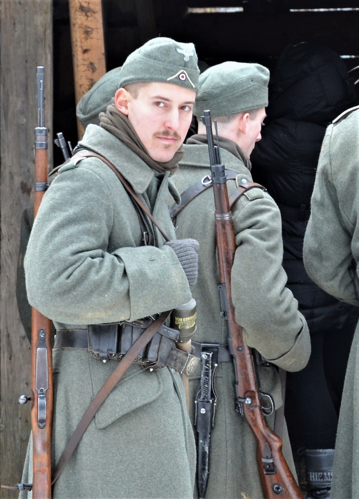 Oliver Troska als Gefreiter Gerhard Feldberg